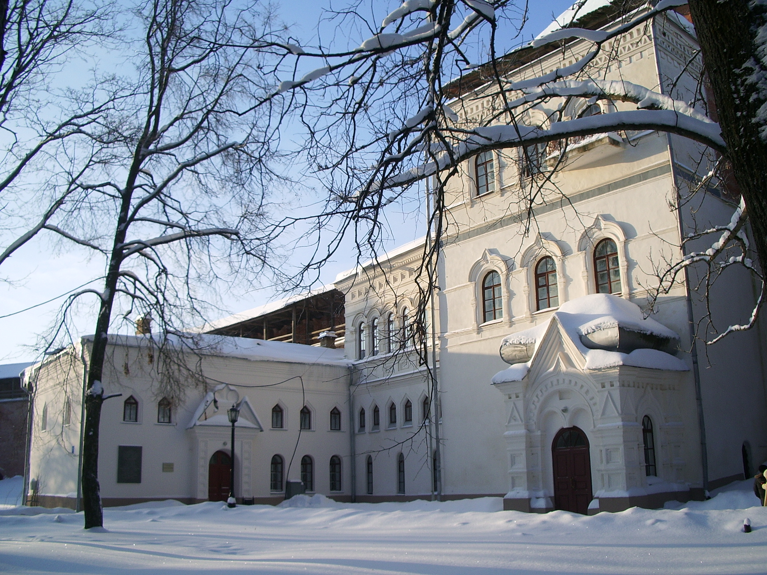 The office building of Novgorod Museum in Novgorod Detinets, along the western wall, in snow.